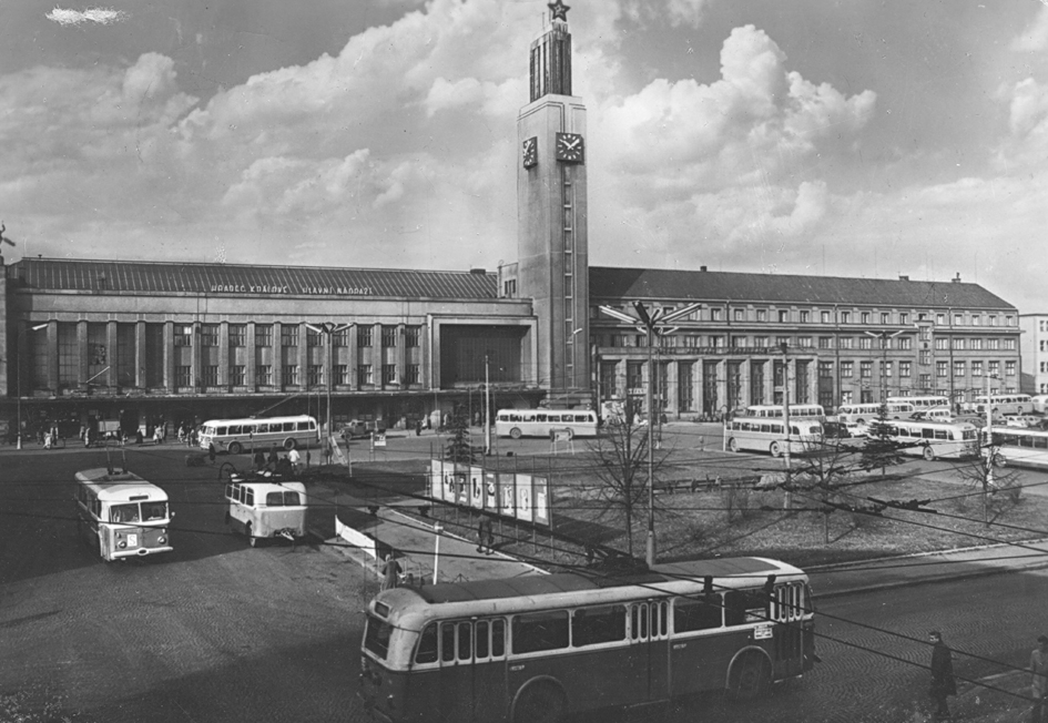 Railway station in Hradec Králové, Czech republic, the end of the 1960s.